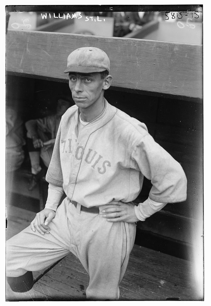 TITLE: Ken Williams, St. Louis AL (baseball)